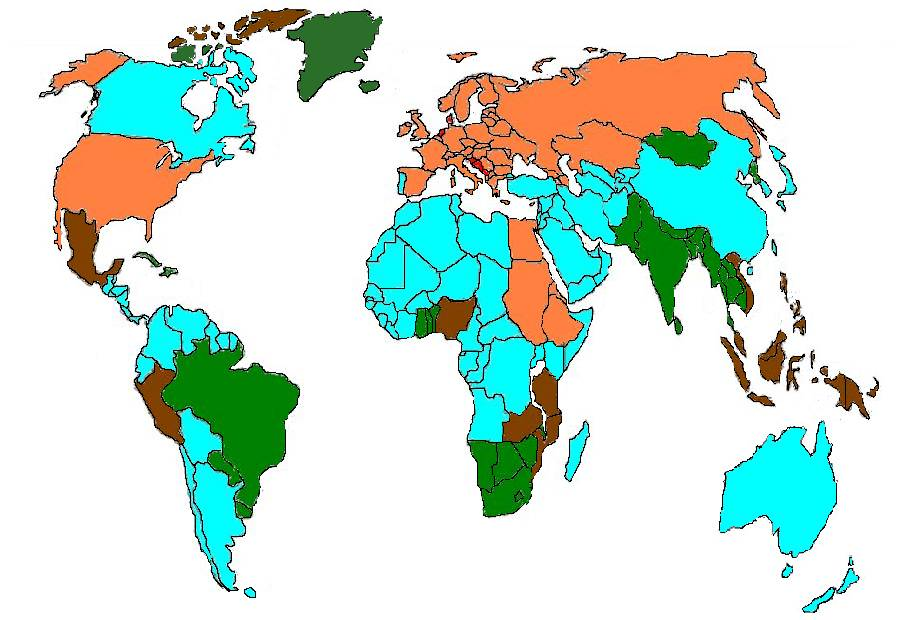 Rosso: statura media uomini maggiore o uguale a 180 cm Arancione: statura media uomini tra 175 cm e 179 cm Azzurro: statura media uomini tra 170 cm e 174 cm Verde: statura media uomini tra 165 cm e 169 cm Marrone: statura media uomini inferiore o uguale a 164 cm